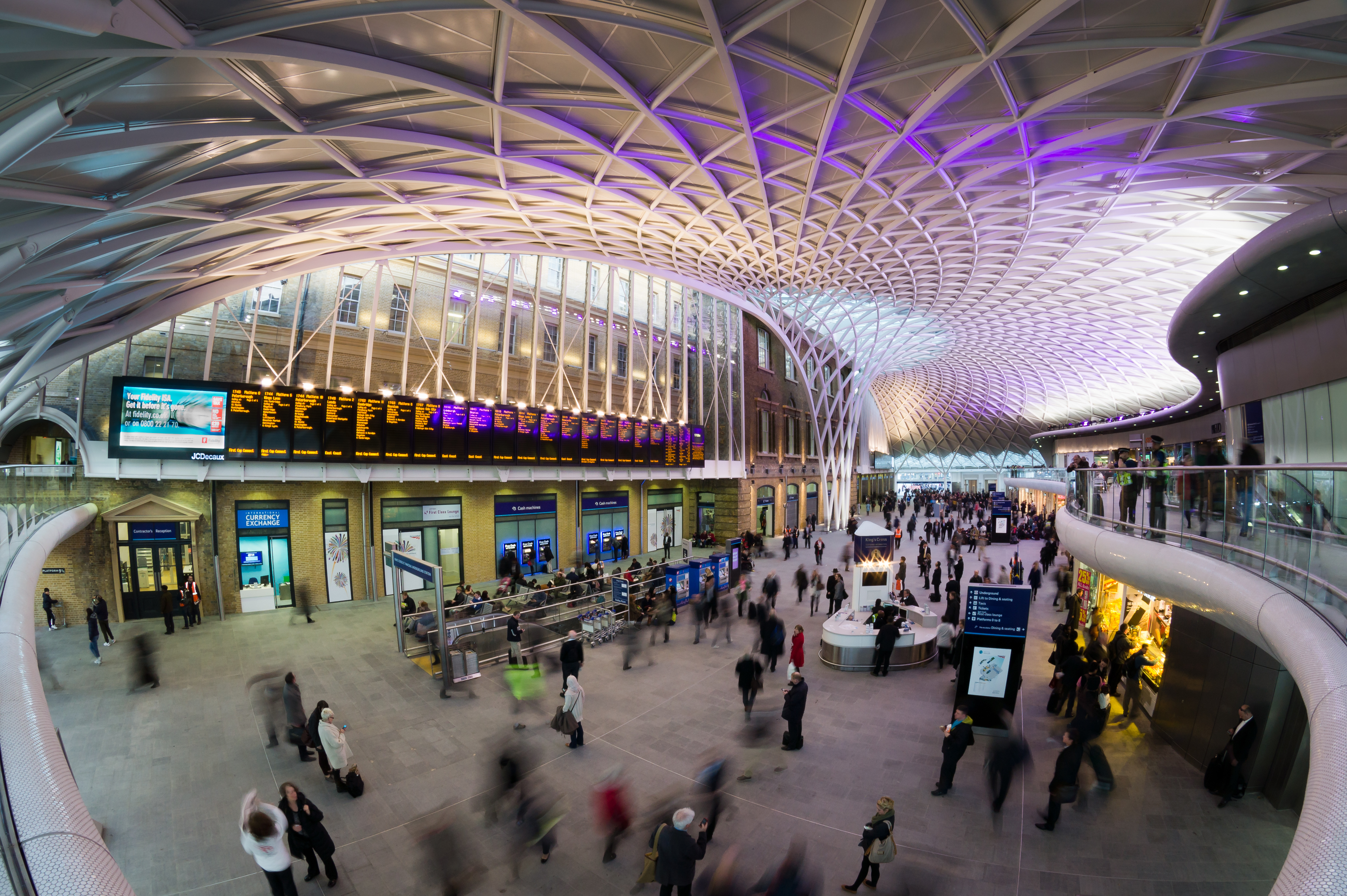 The western departures concourse of London King's Cross railway station, which opened on the 19th March 2012.Designed by John McAslan, it is intended to cater for much-increased passenger flows and provide greater integration between the intercity, suburban and underground sections of the station, as well as facilitating easier passenger exchange between the King's Cross and St Pancras complexes. Passengers departing on trains at this station use the new concourse; those arriving on trains must exit the station from old concourse on Euston road. The architect claims that the roof is the longest single-span station structure in Europe. The semi-circular building has a radius of 54 metres and over two thousand triangular roof panels, half of which are glass. The steel structure of the roof, engineered by Arup, has been described as being "like some kind of reverse waterfall, a white steel grid that swoops up from the ground and cascades over your head"Source: "All change at King's Cross" by Kieran Long at the London Evening Standard, 14 March 2012.The photograph was taken from the walkway between the mezzanine floor and the main station building during the evening rush hour. At the left of the picture, below the walkway, is Platform 9¾ where a Harry Potter fan is posing for his picture. Most passengers are in a hurry to catch their train home; those dallying are engrossed in their mobile phones.This image was taken with a Samyang 8mm fisheye lens at f8, 0.5s, ISO 100.